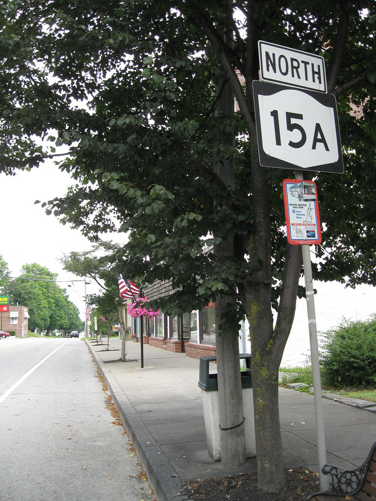 Route 15A heading northbound in Lima, New York.